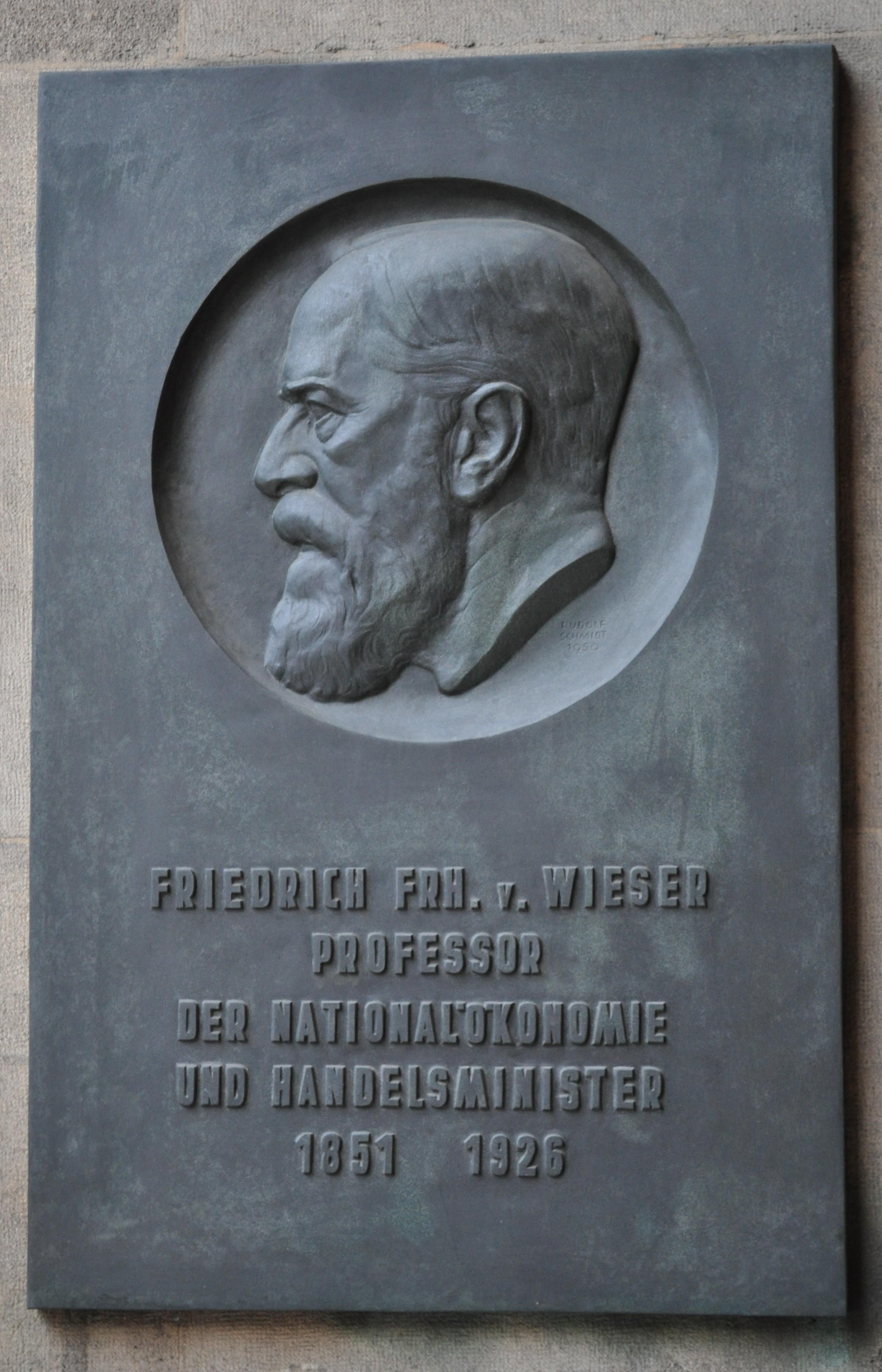 Friedrich von Wieser in the court of the main building of the University of Vienna